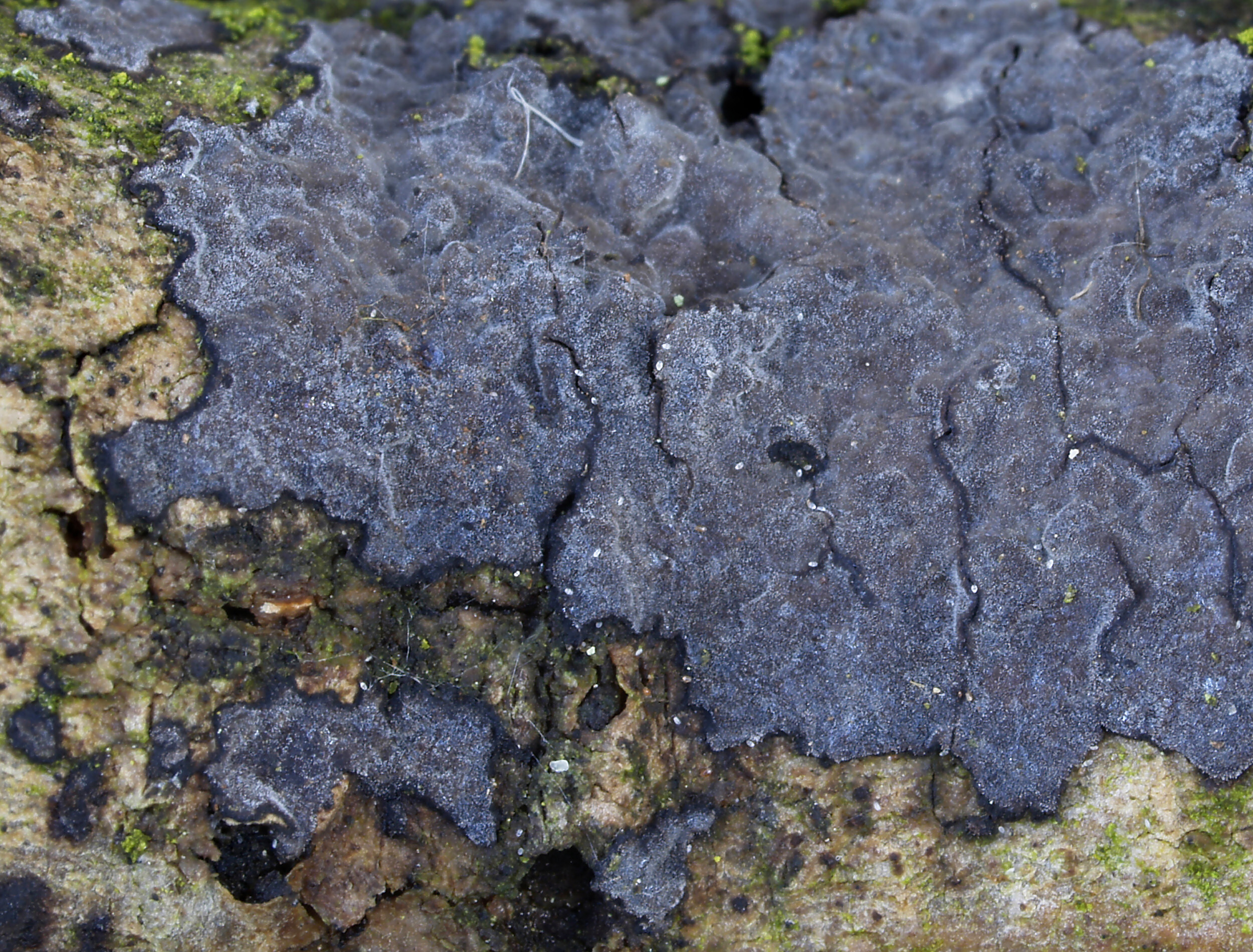 Peniophora limitata on Fraxinus. Germany.